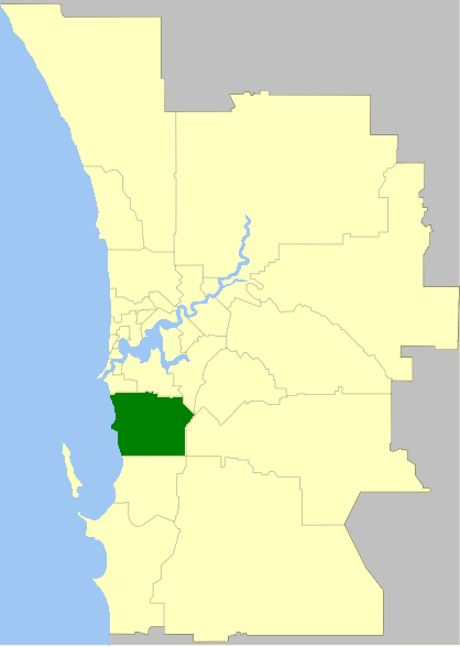 Location of the Local Government Area City of Cockburn in Perth, Western Australia